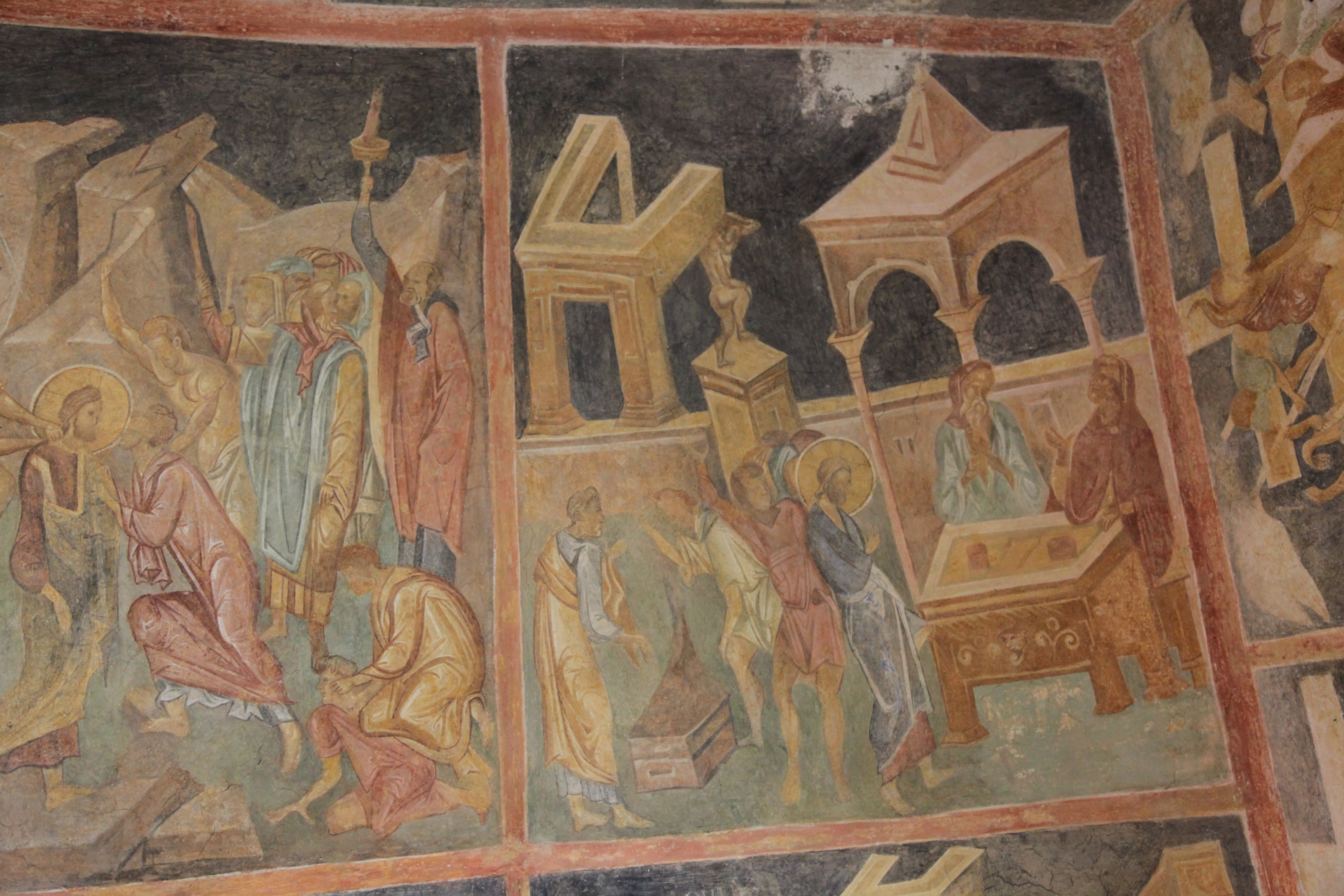 Fresco in a Rock-hewn Church of Ivanovo